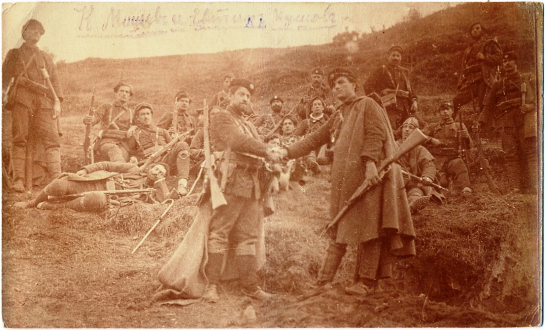 Bulgarian revolutionaire, member of the Internal Macedonian-Adrianopolitan Revolutionary Organization Kostadin Mishev (front, left) with his band and Evtim Kushev (front, right).